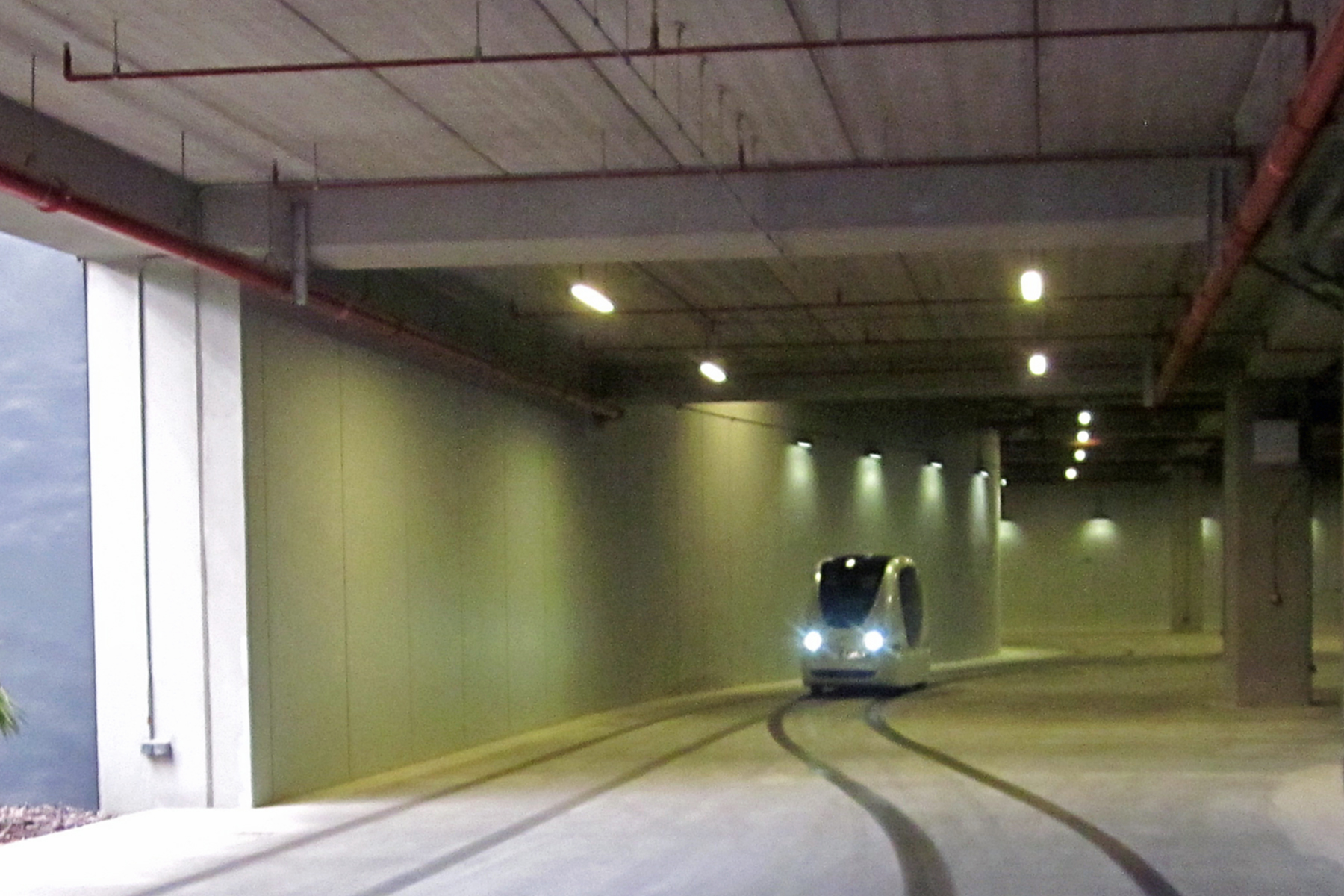 Masdar personal rapid transit podcar running underground in Masdar City, Abu Dhabi, United Arab Emirates